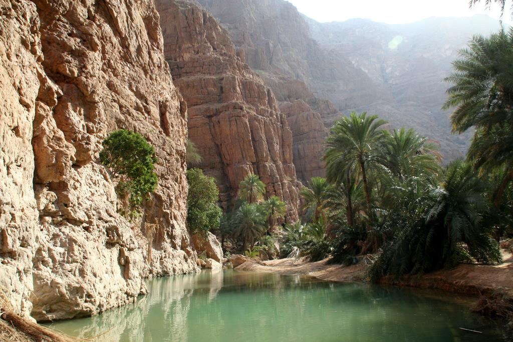 Wadi Shab is the most beautiful Wadi in Oman and one of the top attractions.